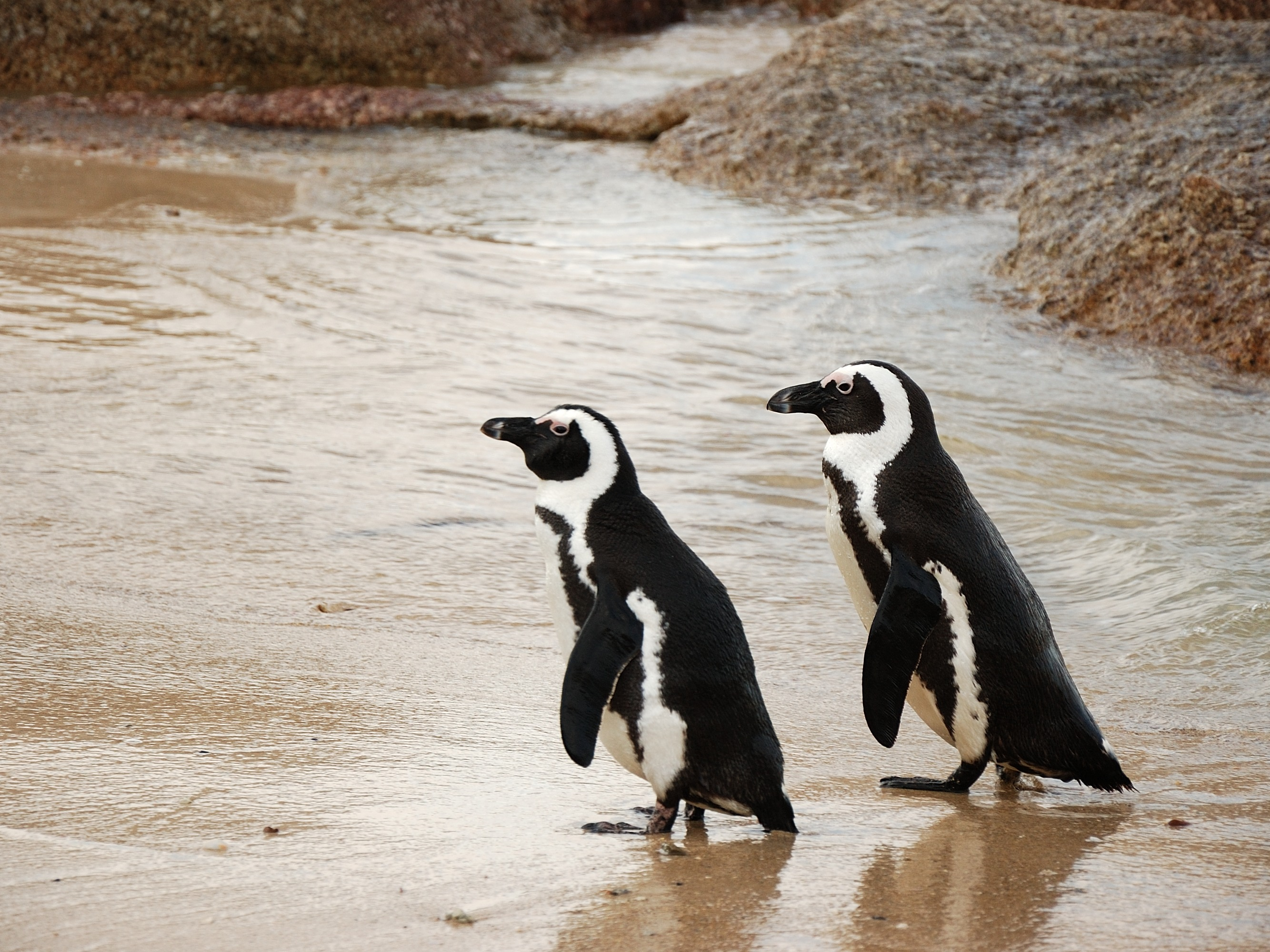 Table Mountain National Park, South Africa [2012]